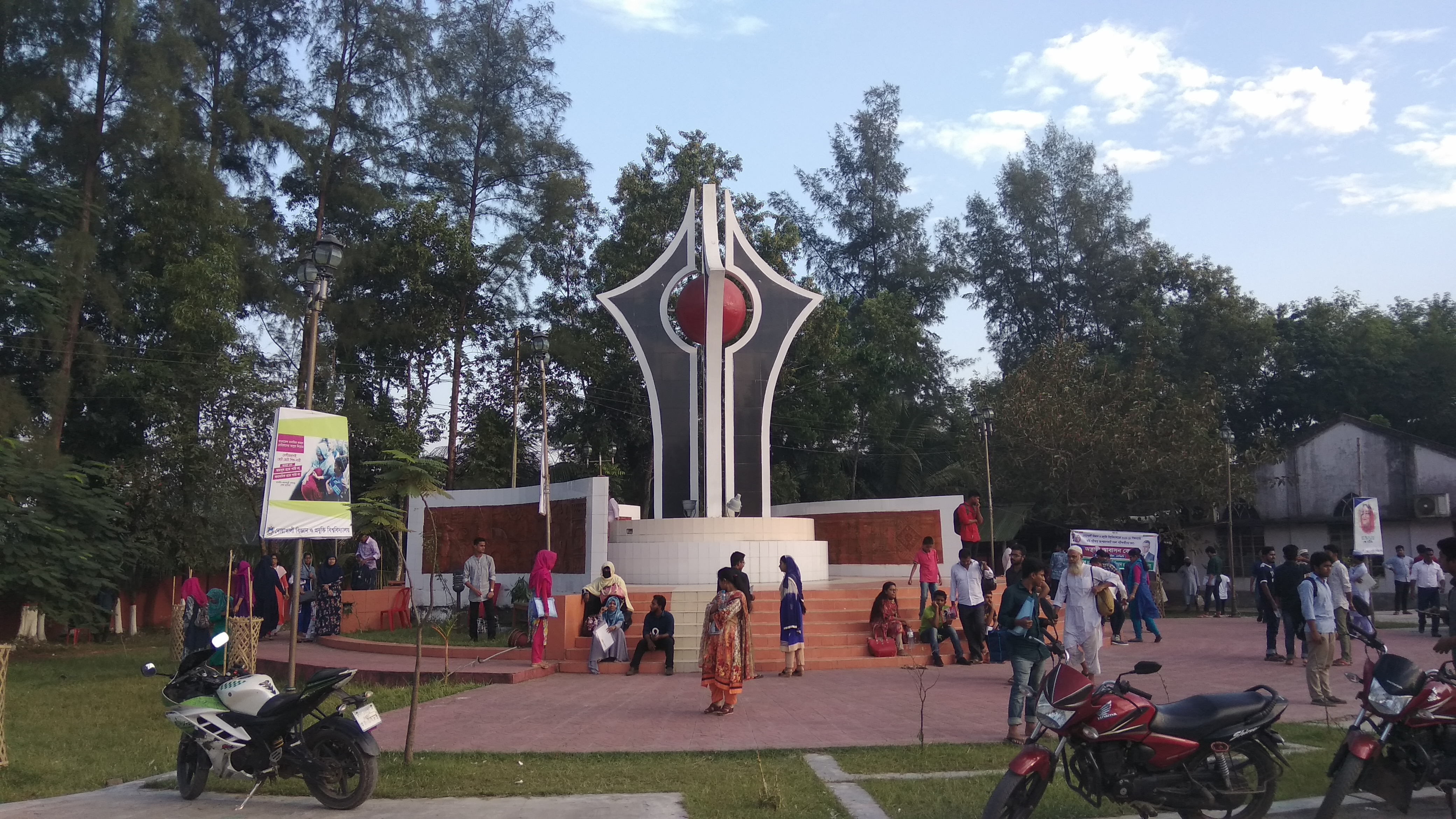 It is an image of Noakhali Science and Technology University martyrs monument.